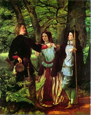 The Mock Marriage of Orlando and Rosalind (from As you like it, by William Shakespeare) by Walter Howell Deverell.